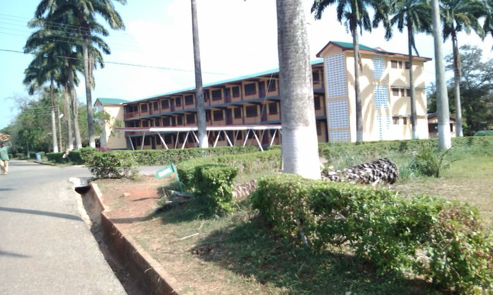 block